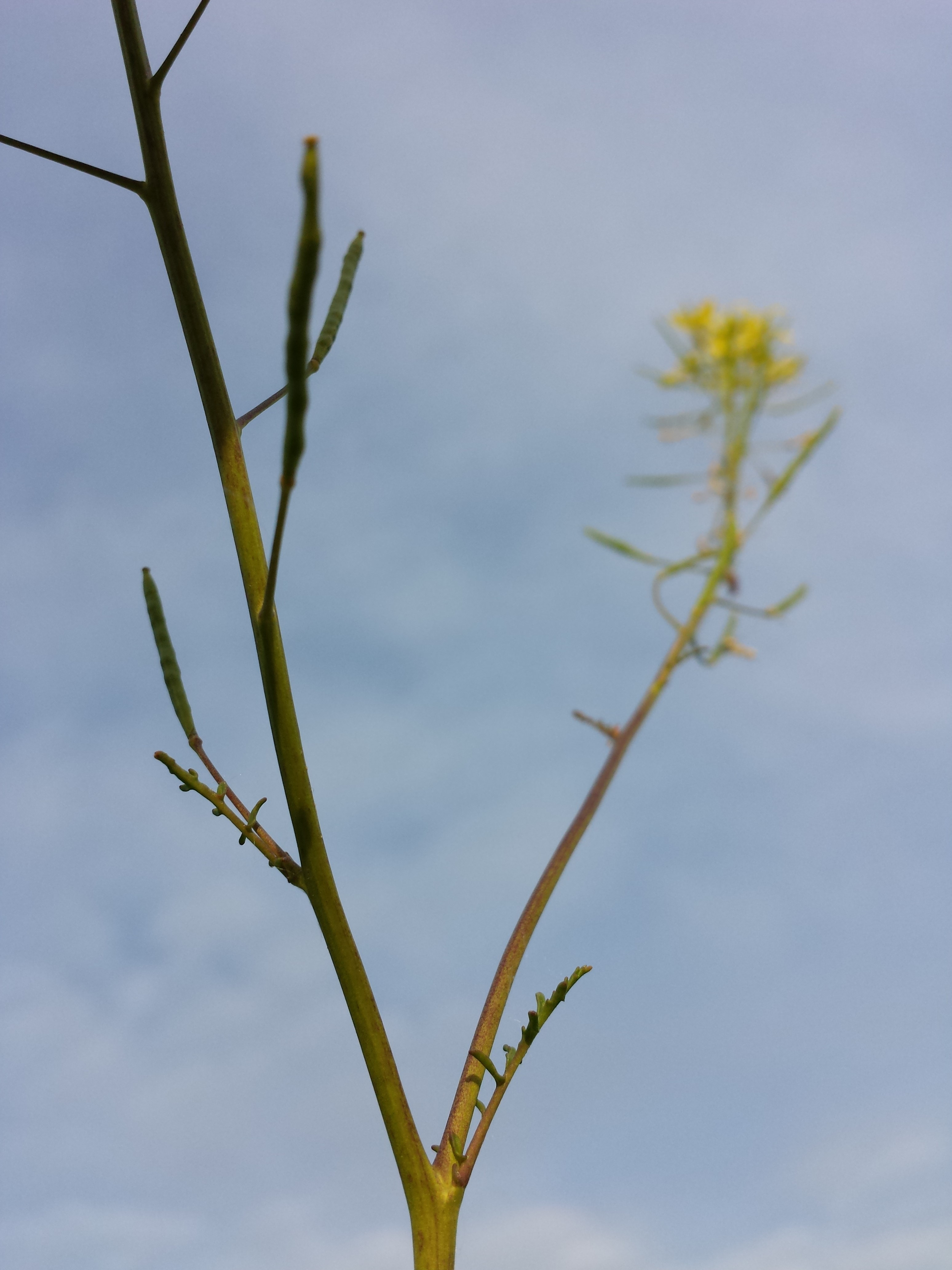 Infructescence (with sporadic bracts) Taxonym: Erucastrum nasturtiifolium ss Fischer et al. EfÖLS 2008 ISBN 978-3-85474-187-9 Location: Neue Donau, district Korneuburg, Lower Austria - ca. 160 m a.s.l. Habitat: slope